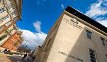 Harold Cohen Library